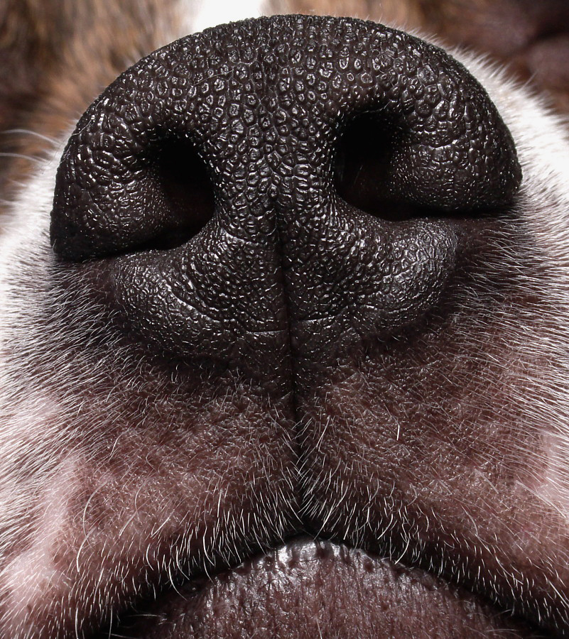 Close up photo of a dog's nose